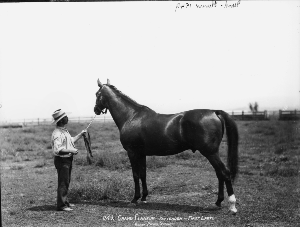 Grand Flaneur, 1877, by Yattendon from First Lady by St. Albans was unbeaten in all nine of his race starts. His wins included the 1880 AJC Derby, the 1881 Victoria Derby, the 1880 Melbourne Cup and the 1881 VRC St Leger.